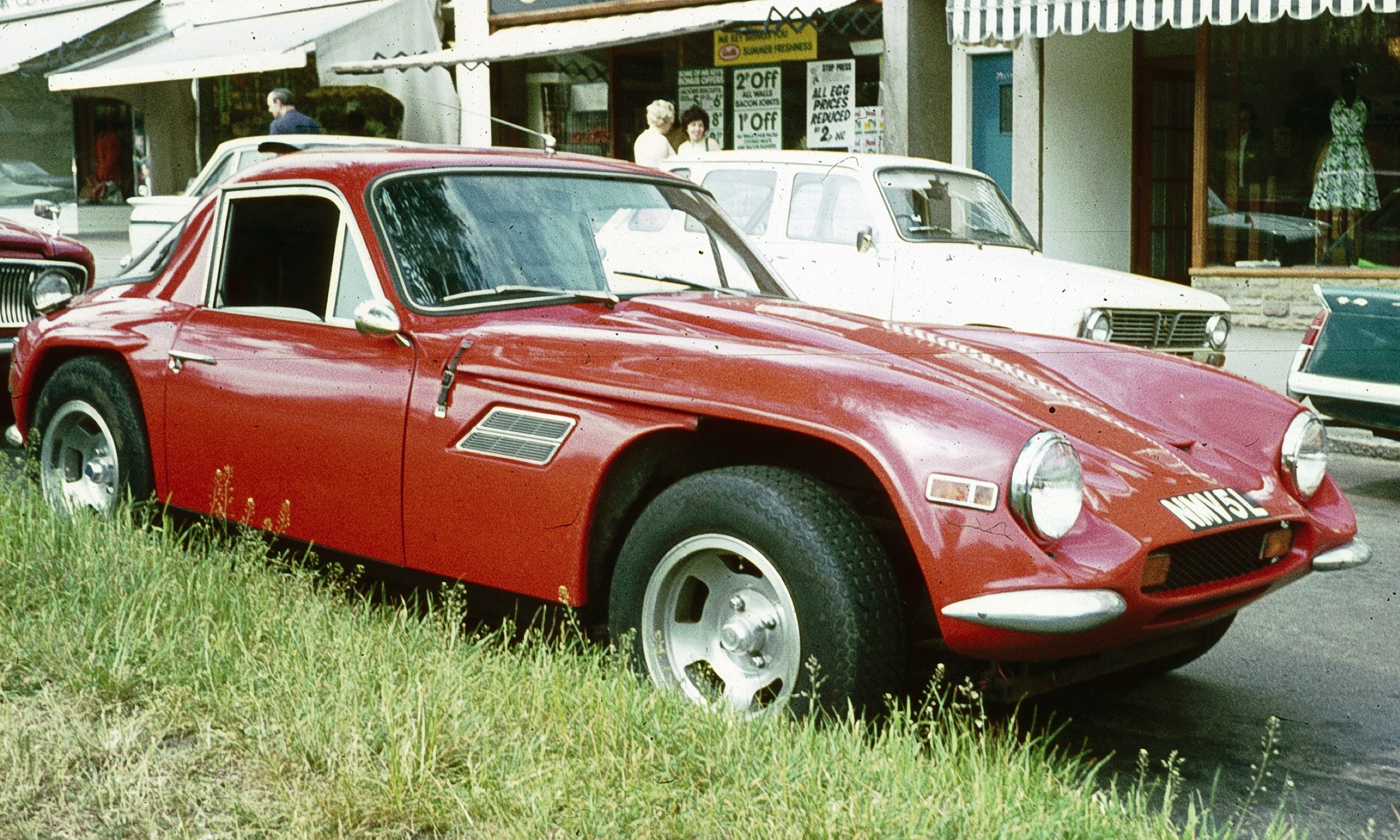 TVR Vixen S3 or S4 outside UK wine shop 1972